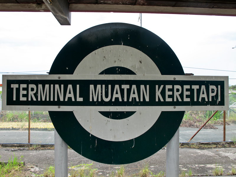 former cargo handling "Terminal Keretap" of the Sabah State Railway